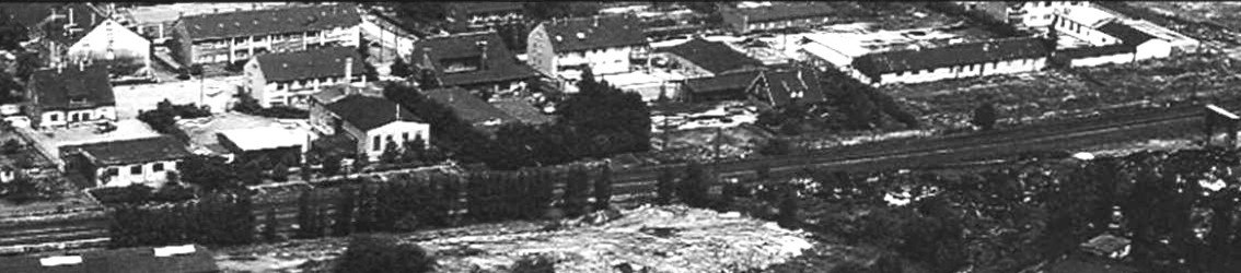 Außenlager Annener Gußstahlwerk des KZ Buchenwald (Subcamp Annen Steelworks of concentration camp Buchenwald) in Witten: part of the area